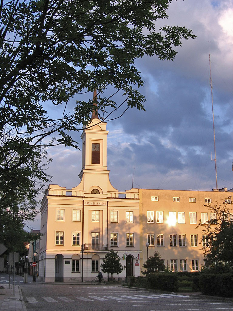 Town hall in Ostrołęka